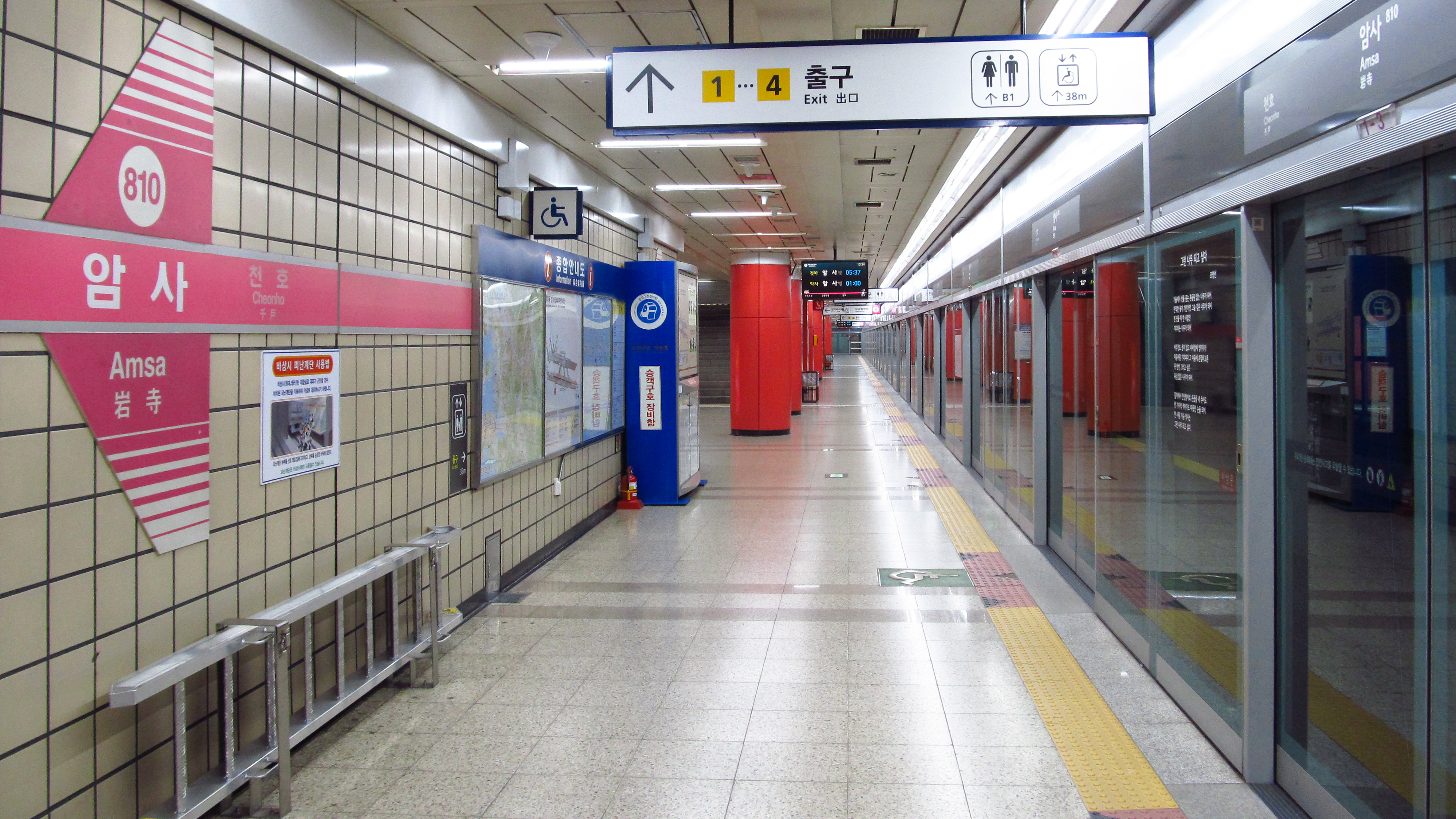 The platform at Amsa Station on Seoul Subway Line 8 in Gangdong-gu, Seoul, Republic of Korea(South Korea)